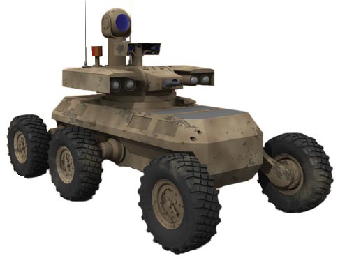 Future Combat Systems MULE-ARV